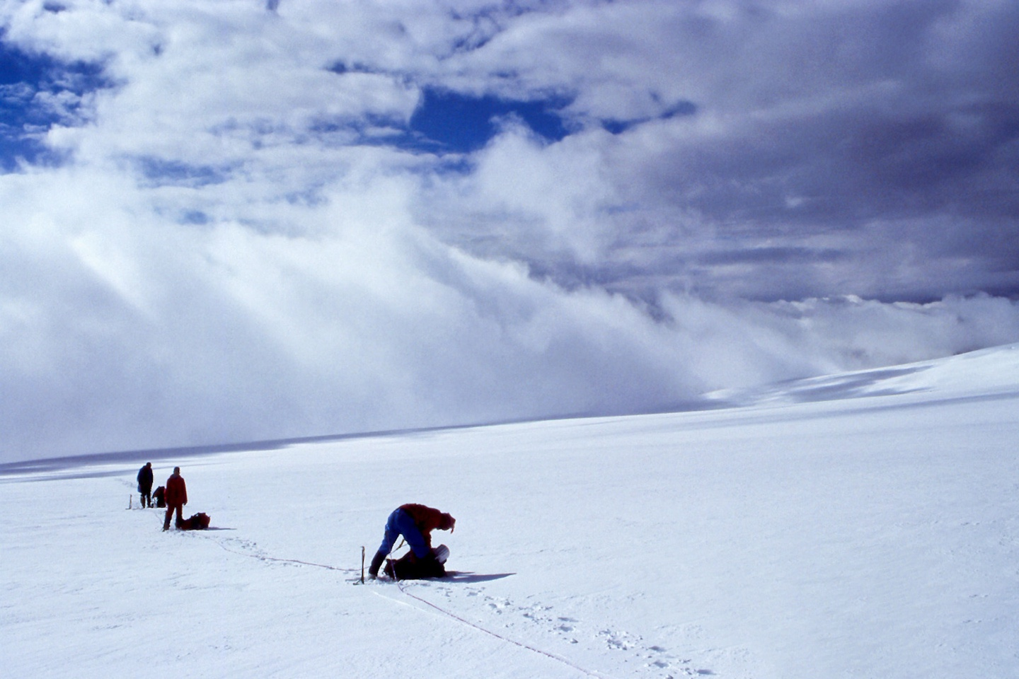 From whiteout to clear in a few seconds, traversing across the Lyell Icefield on Mt. Lyell. We'd been in blinding whiteout conditions all morning, unable to see any hint of features except for yawning crevasses as we drew near to an area of large crevasses, and even then they appeared to be the horizon at first, until we were almost on top of them (people behind on the rope still swore it was the horizon). We then realised we were going in the off our planned track and made a 90⁰ turn North to get around the crevasse field. This was a typical Type 3 whiteout. Traveling in a straight line in such a featureless place was difficult for me as leader, and I got the others to tell me if I was veering right or left. Then suddenly, we were out of 'the soup' and could see for miles except for behind us, where the stationary cloud bank remained. Dave, Linda and Kris on the rope.